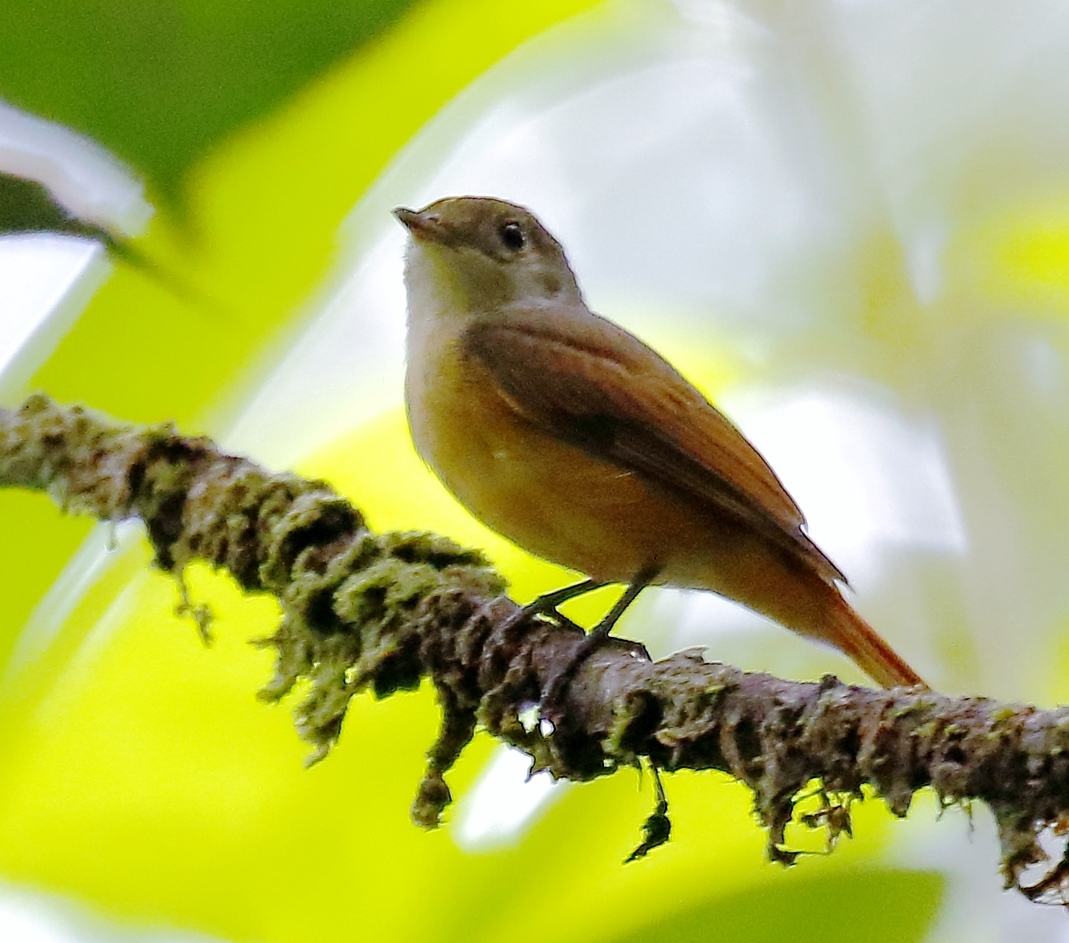 Cinnamon neopipo at Presidente Figueiredo, Amazonas, Brazil